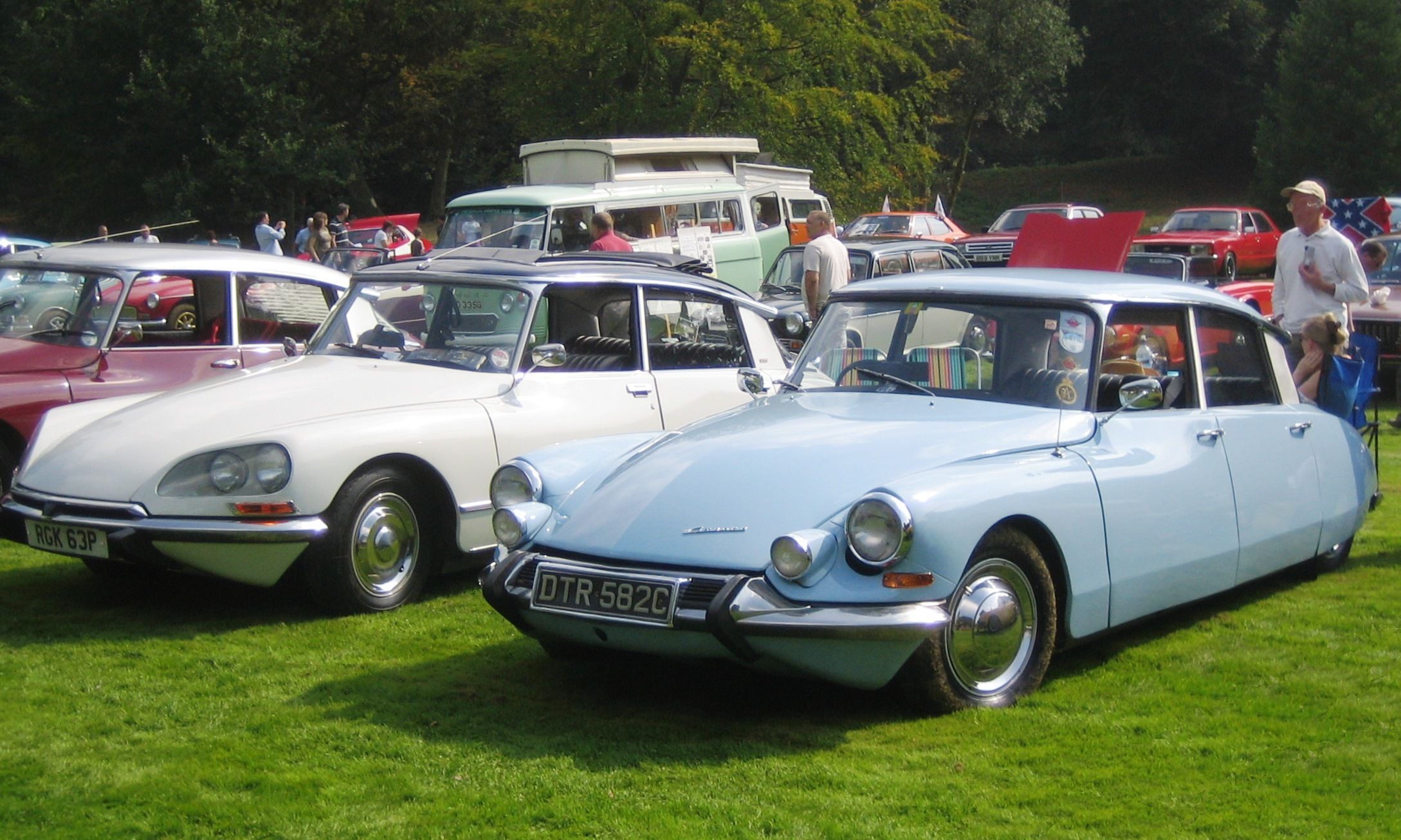 Citroen DS after they got a second set of headlights but before they paired them under just two headlamp covers. That's 1965 - 1966